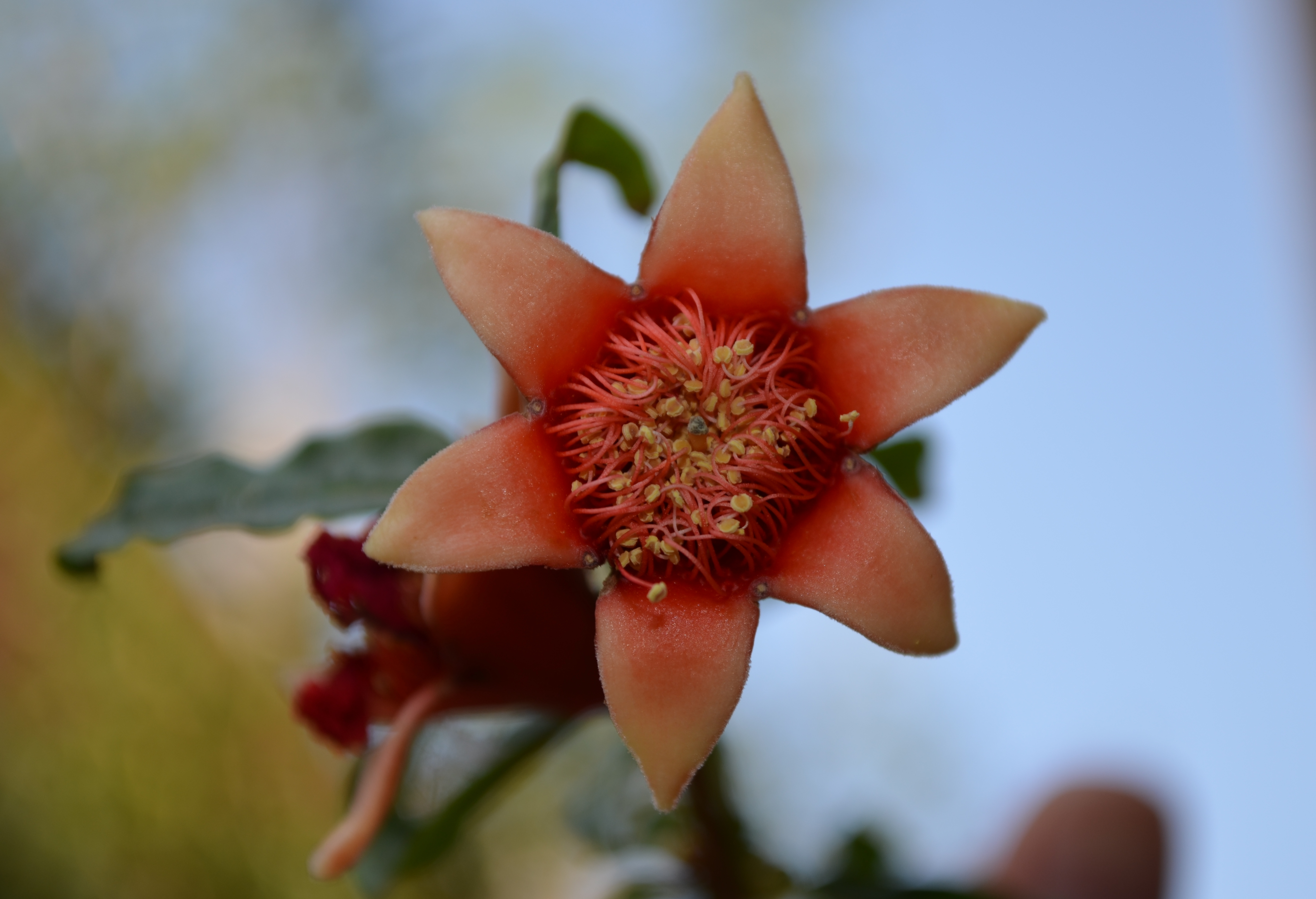 Flower of Pomegranate.